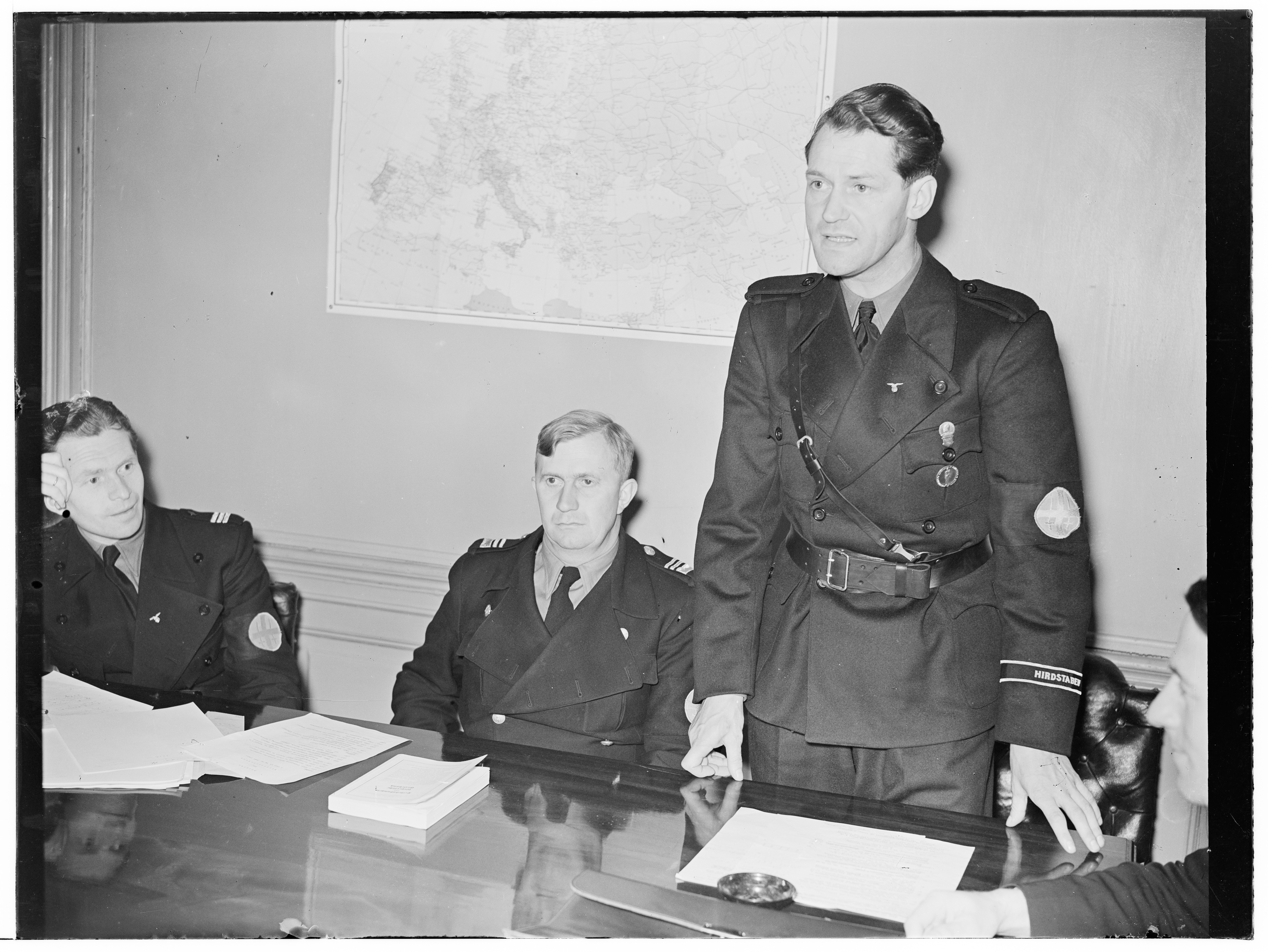 Leaders of the Hirden, the uniformed paramilitary branch of the fascist party Nasjonal Samling (NS) in German occupied Norway during World War II, modelled after the Sturmabteilungen (SA) in Nazi Germany. Photo taken during a meeting in the organizaetion's headquarters in Tolbodgaten (Tollbugata) Street in Oslo, Norway on July 14th, 1941.